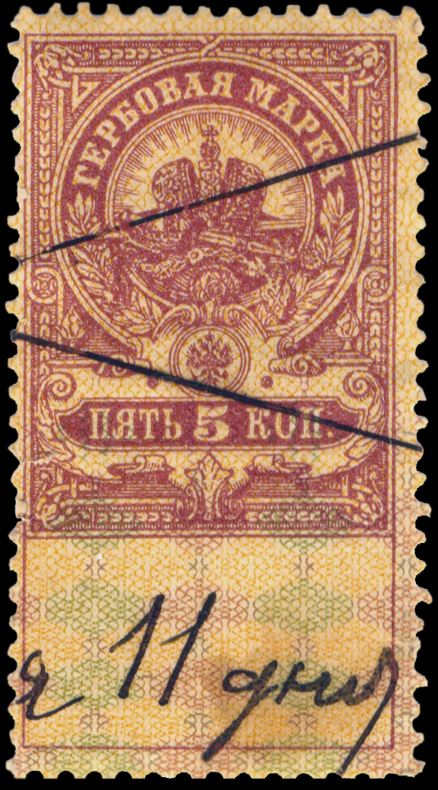 Revenue stamp of Russia, 1907, 5k.